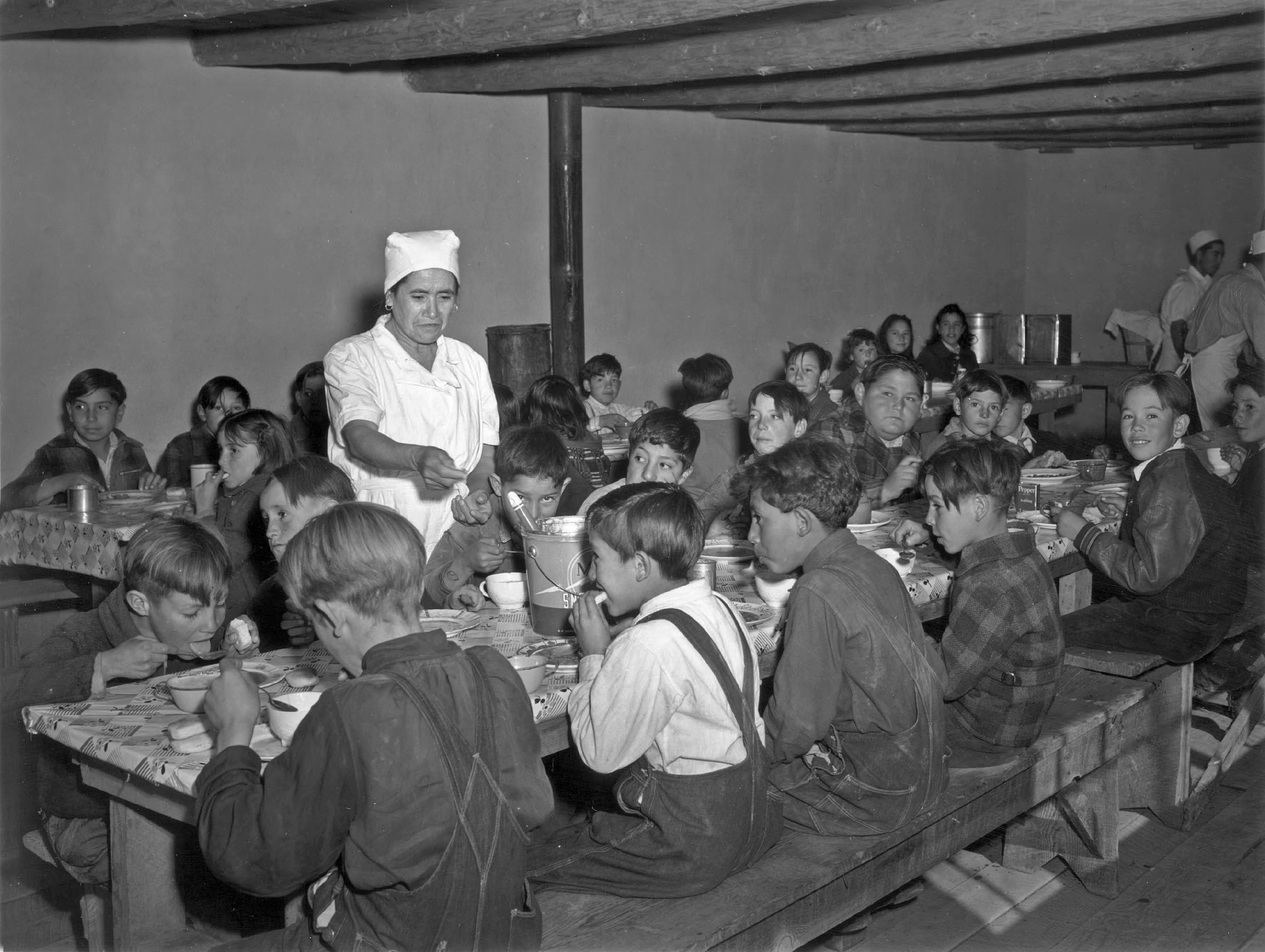 The hot lunch, school at Penasco. Children pay about once cent daily for this hot meal made up primarily of food from the surplus commodities program, and prepared by WPA paid cooks December 1941 in Taos Co, NM.